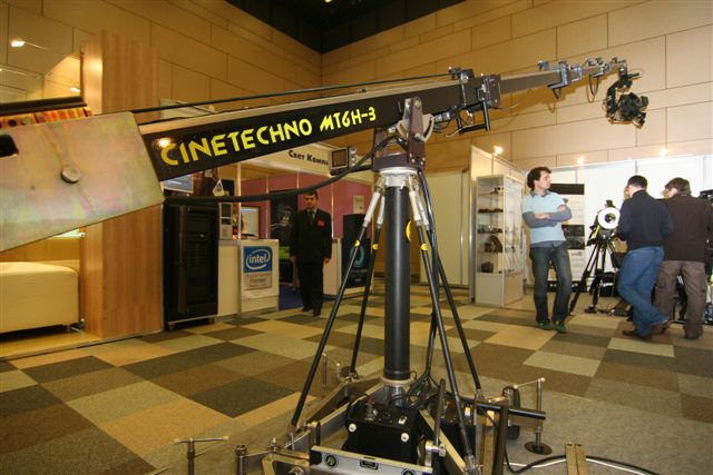 Telescopic operator crane